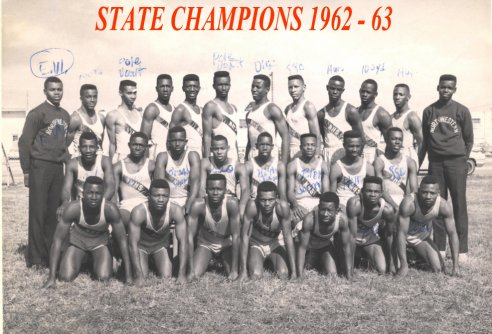 Track Team 1962-63